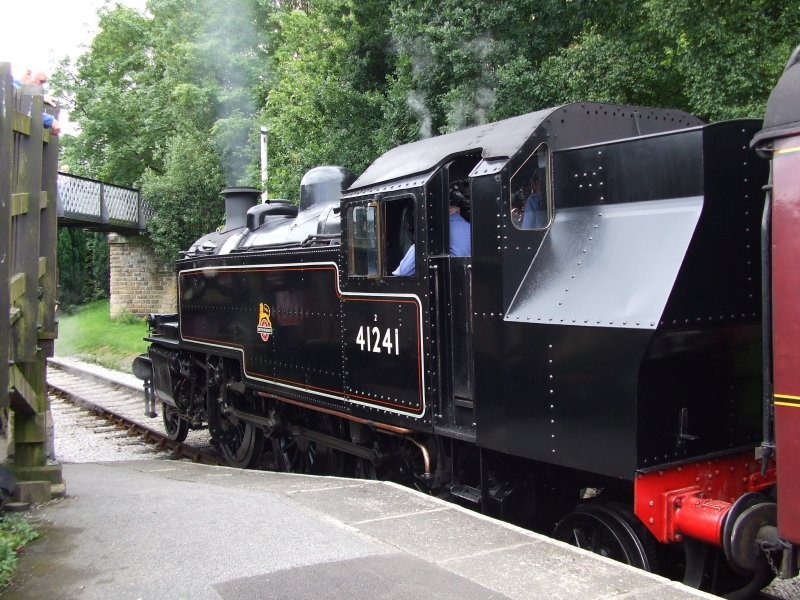 Ivatt 2-6-2T No. 41241 at Haworth station, KWVR, July 9th, 2007.